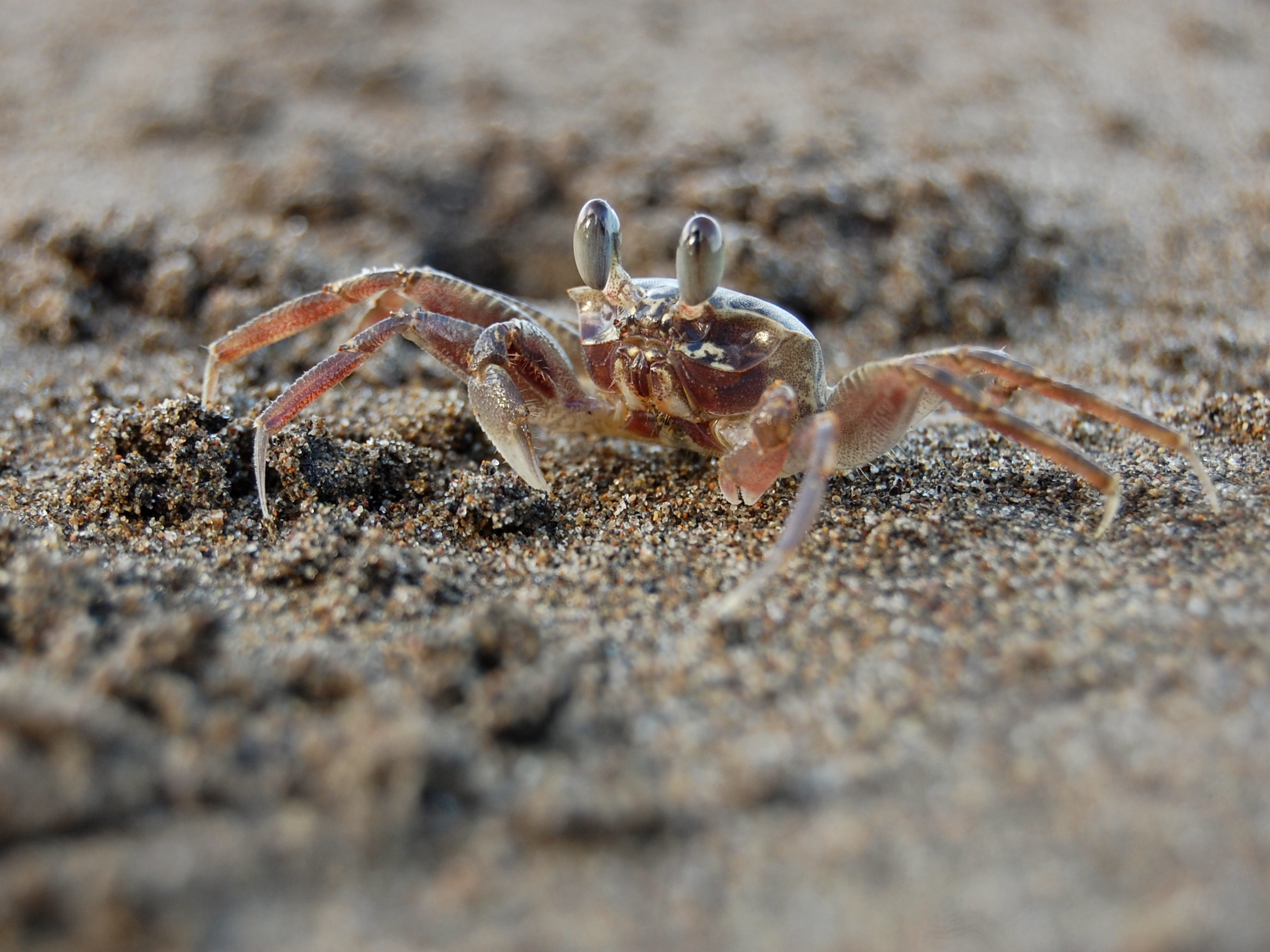 Kuhl's ghost crab, Ocypode kuhlii. Palabuhanratu, West Java, Indonesia.